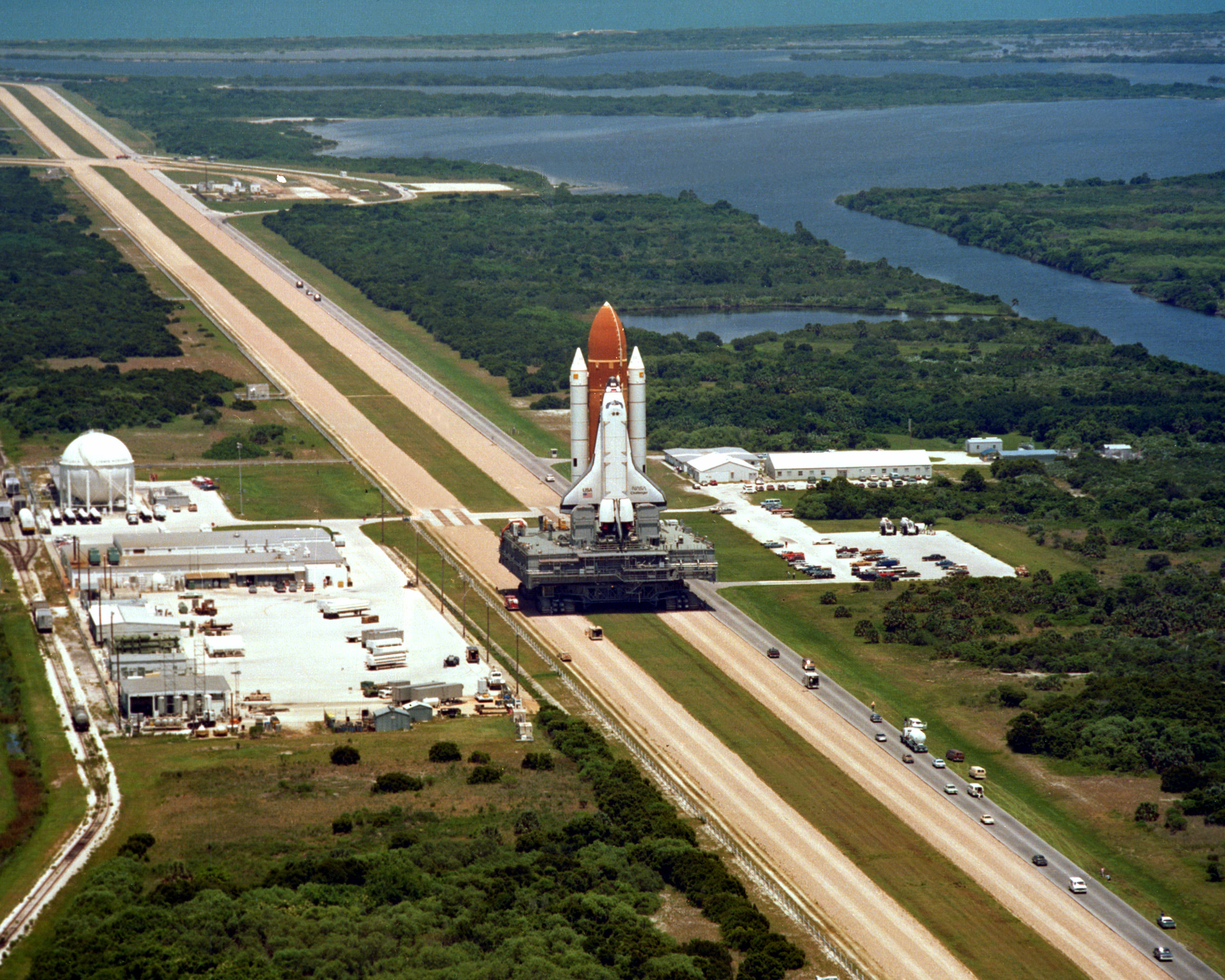 Space Shuttle Challenger is carried by a Crawler-transporter on the way to its launch pad, prior to its final flight before being destroyed in the Space Shuttle Challenger disaster.